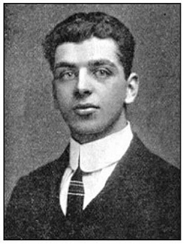 Photograph of Clarence D. Tuska included in "Hartford Youths Construct an Efficient Wireless Telephone", from page 5X of the March 19, 1916 Hartford Courant.